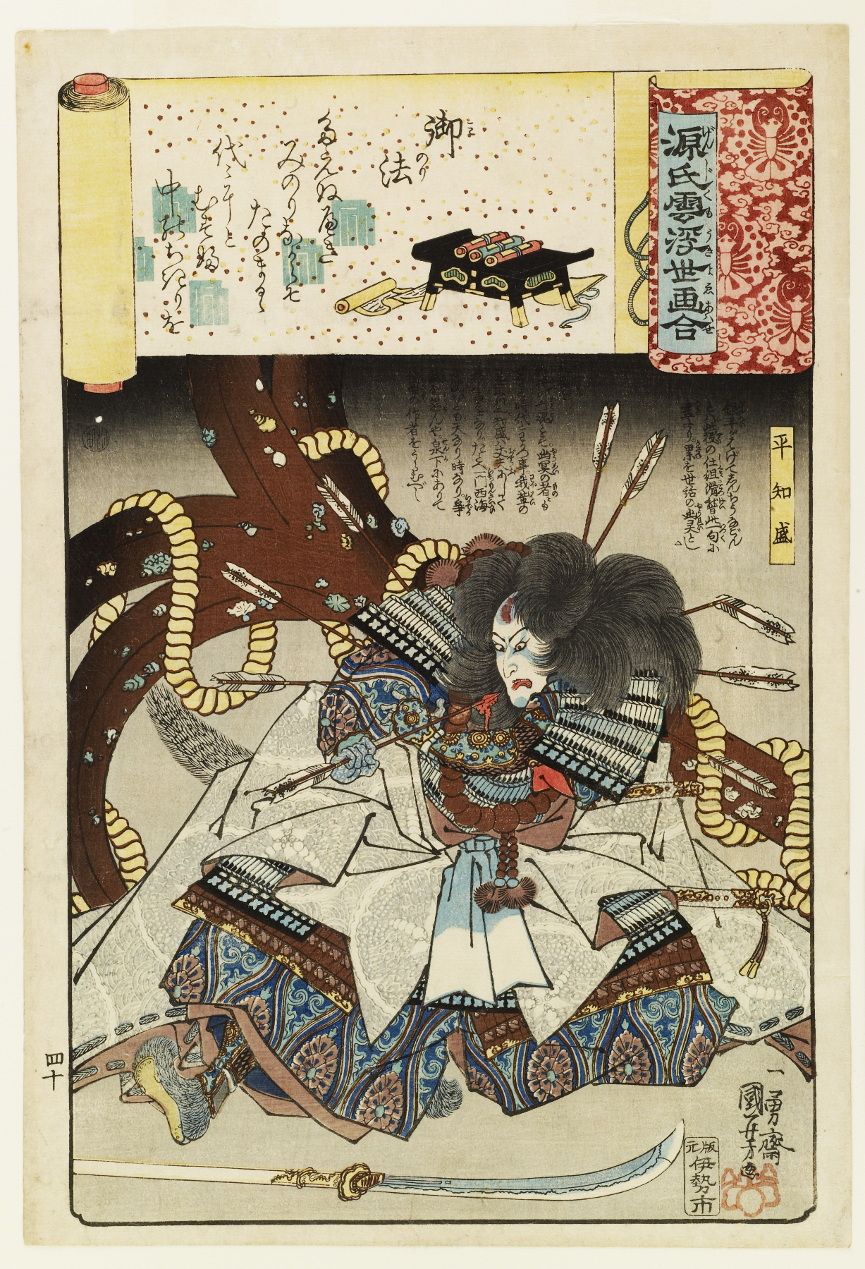 The great 12th-century general Taira no Tomomori ties himself to an anchor so that he may die by his own hand and not from enemy action as defeat nears in the famous sea battle at Dan-no-ura (1185). In "The Tale of Genji," as her death approaches, Lady Murasaki insists on making the arrangements for her own funeral rites.